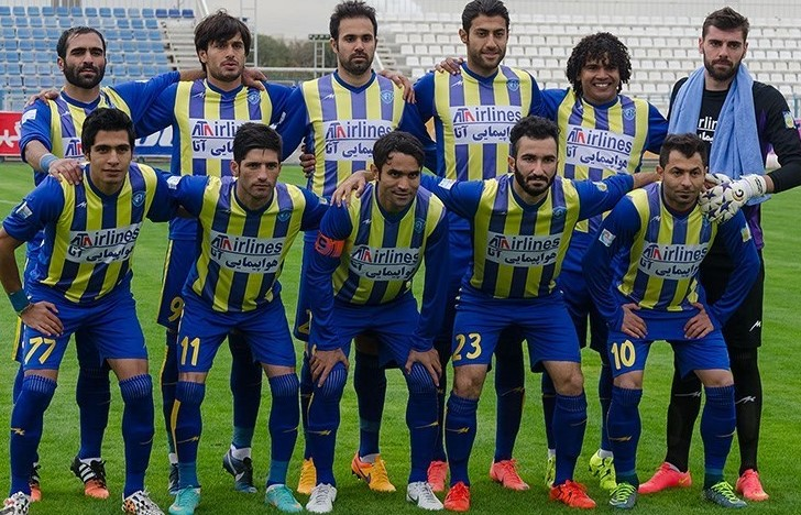 Gostaresh Foulad team photo